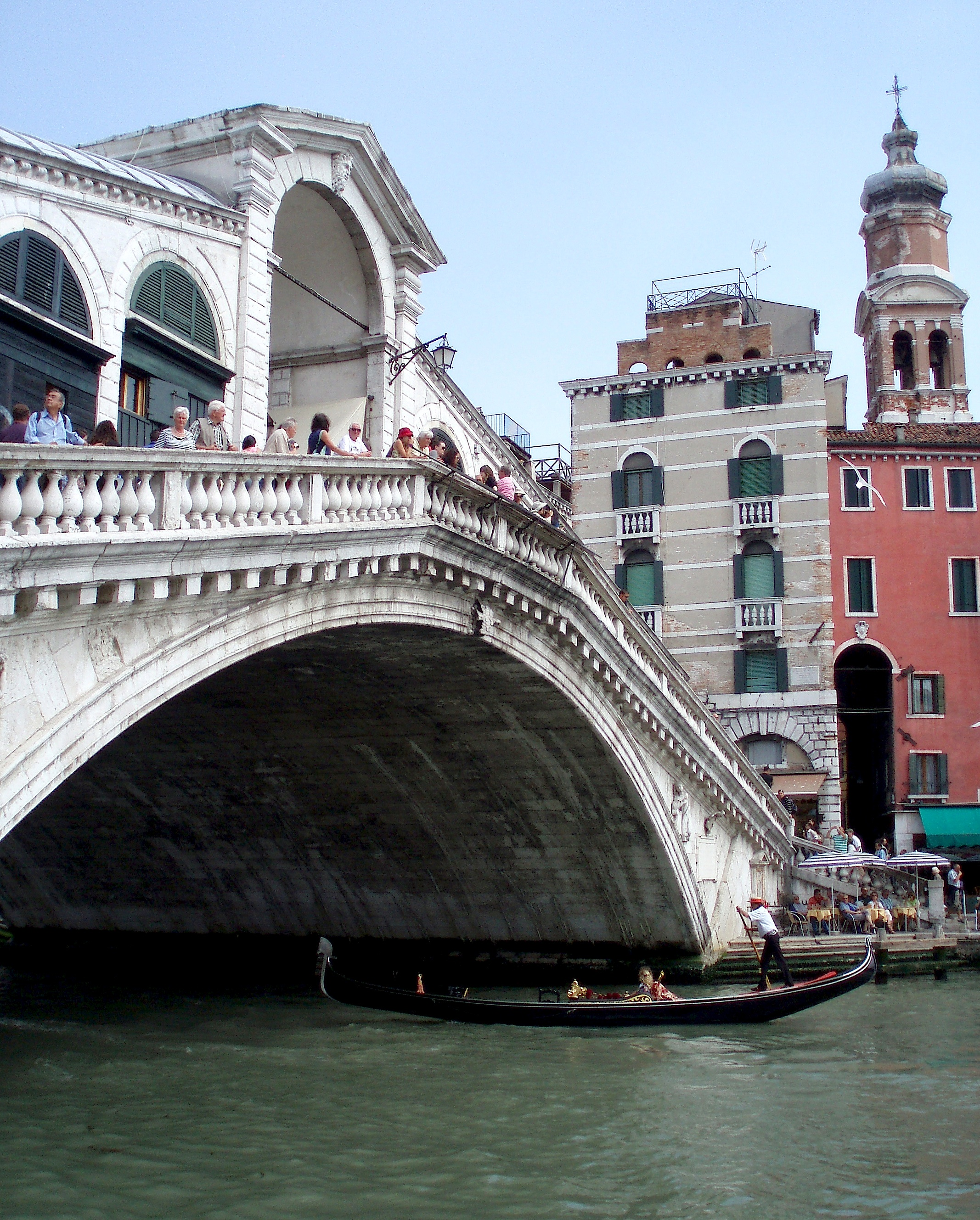 View of Rialto Bridge from the south side with a gondola passing underneath